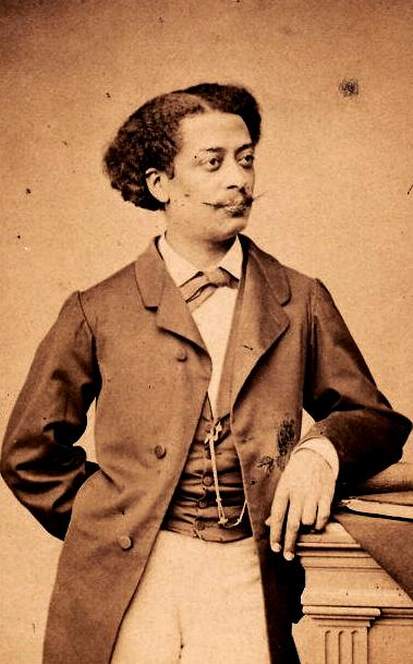 Picture of José White